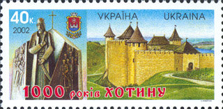 Stamp of Ukraine